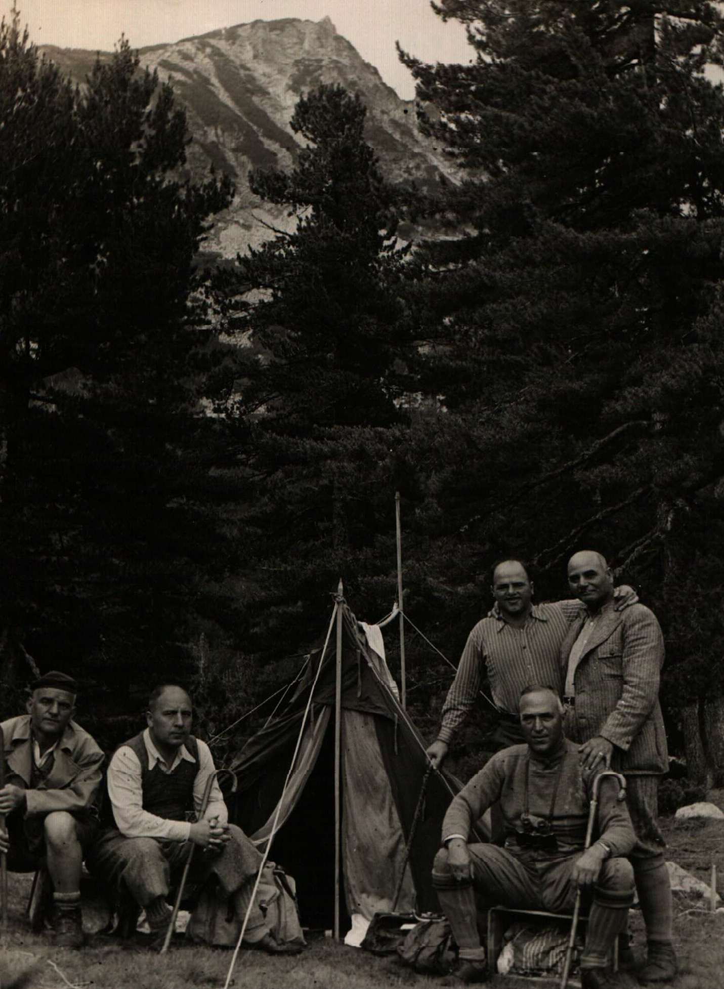 Pirin, Bulgaria